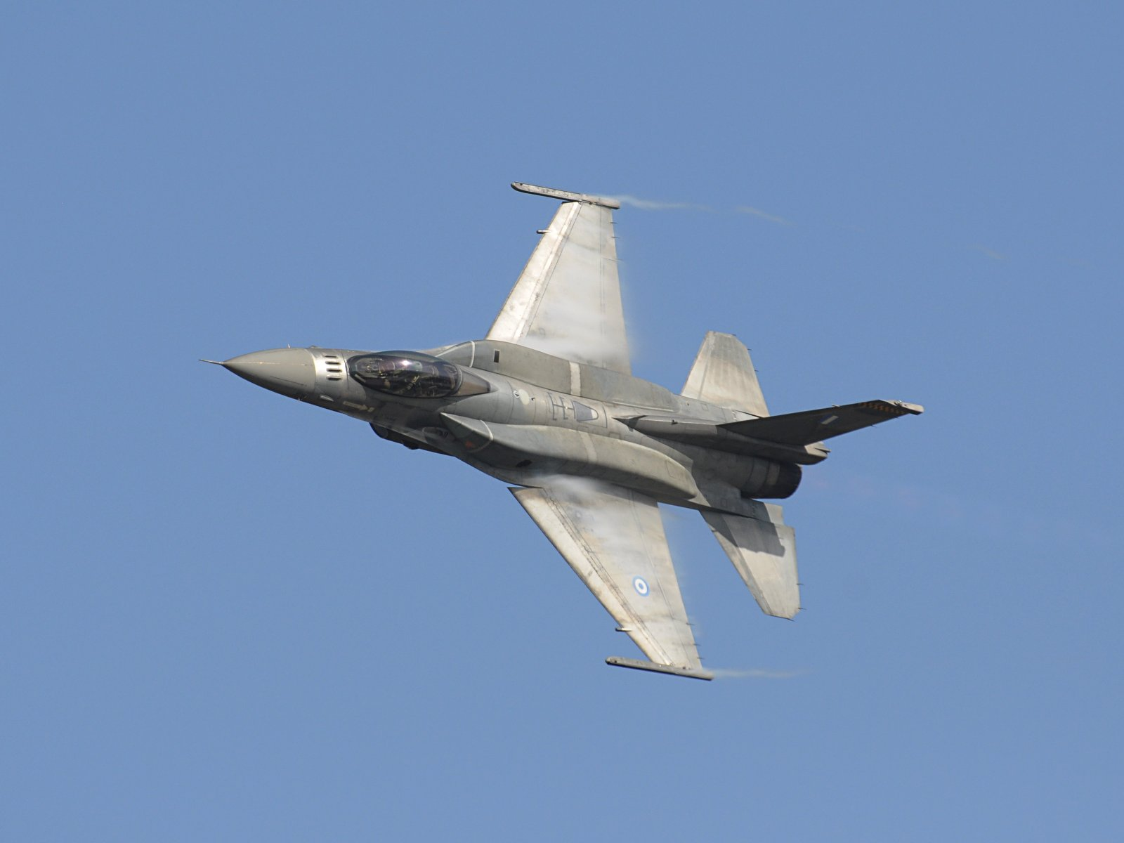 F-16C block 52+ fighter 534 with conformal tanks of HAF 340 Squadron during a solo demo flight at (LGTG) Tanagra Air Base, Greece.